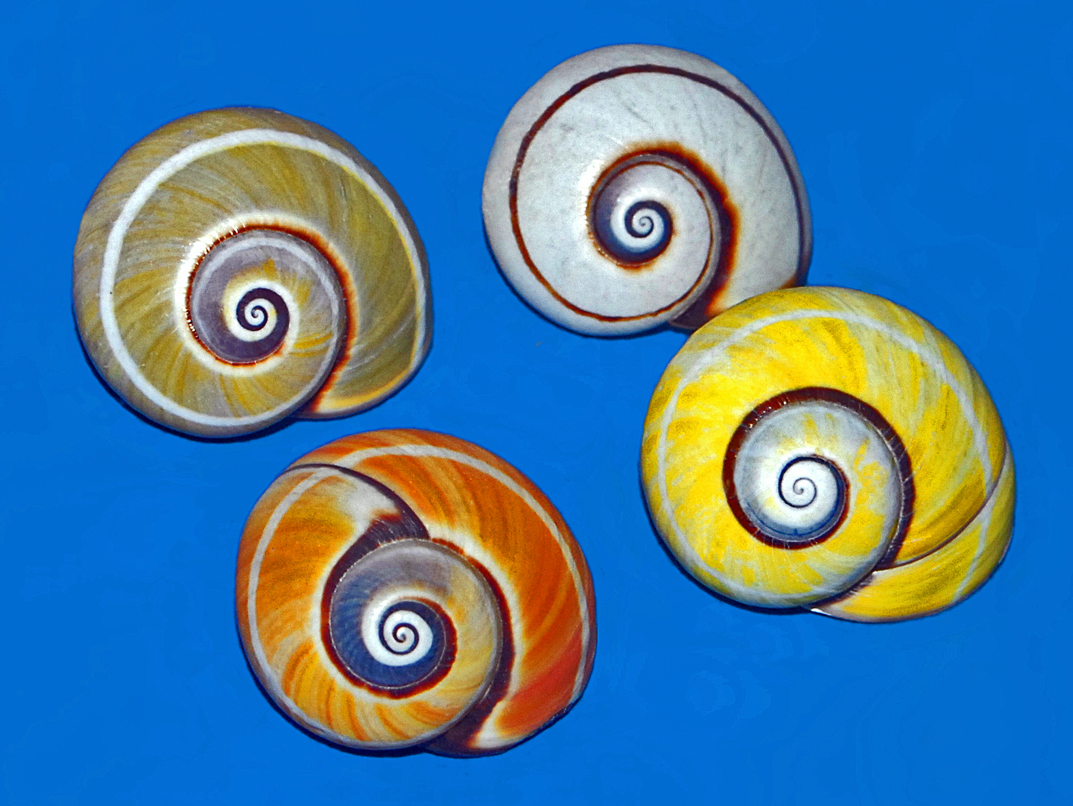 Polymita picta. Variability of the Painted snail. On display at the Museo Civico di Storia Naturale di Milano